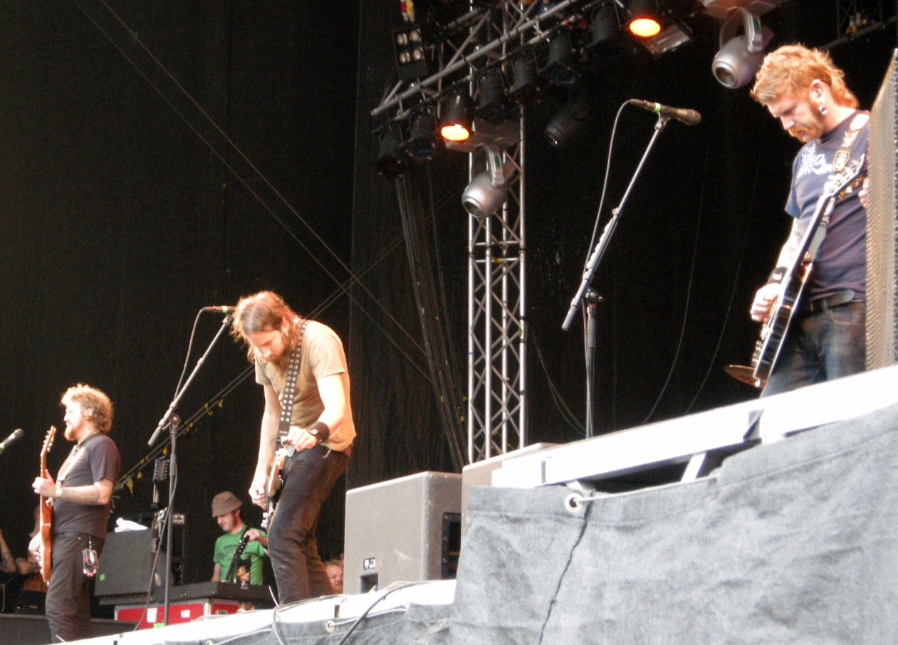 Mastodon at Sonisphere Sweden 2009